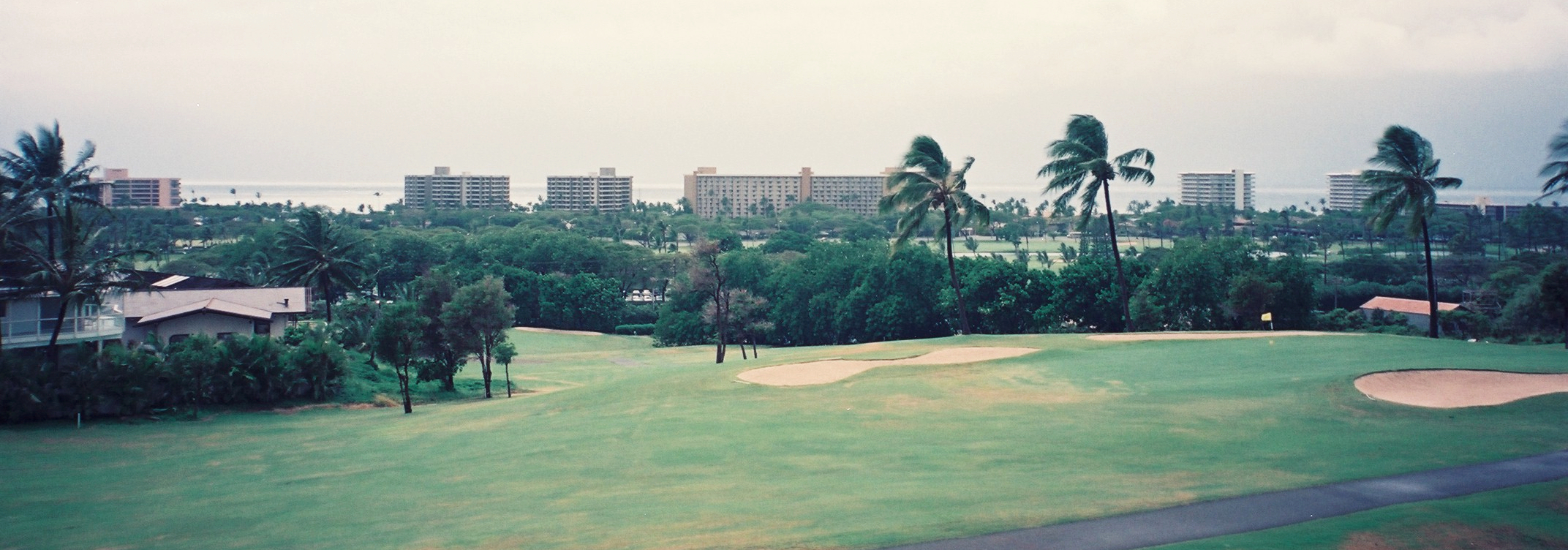 Kaanapali from the Sugar Cane Train 1997